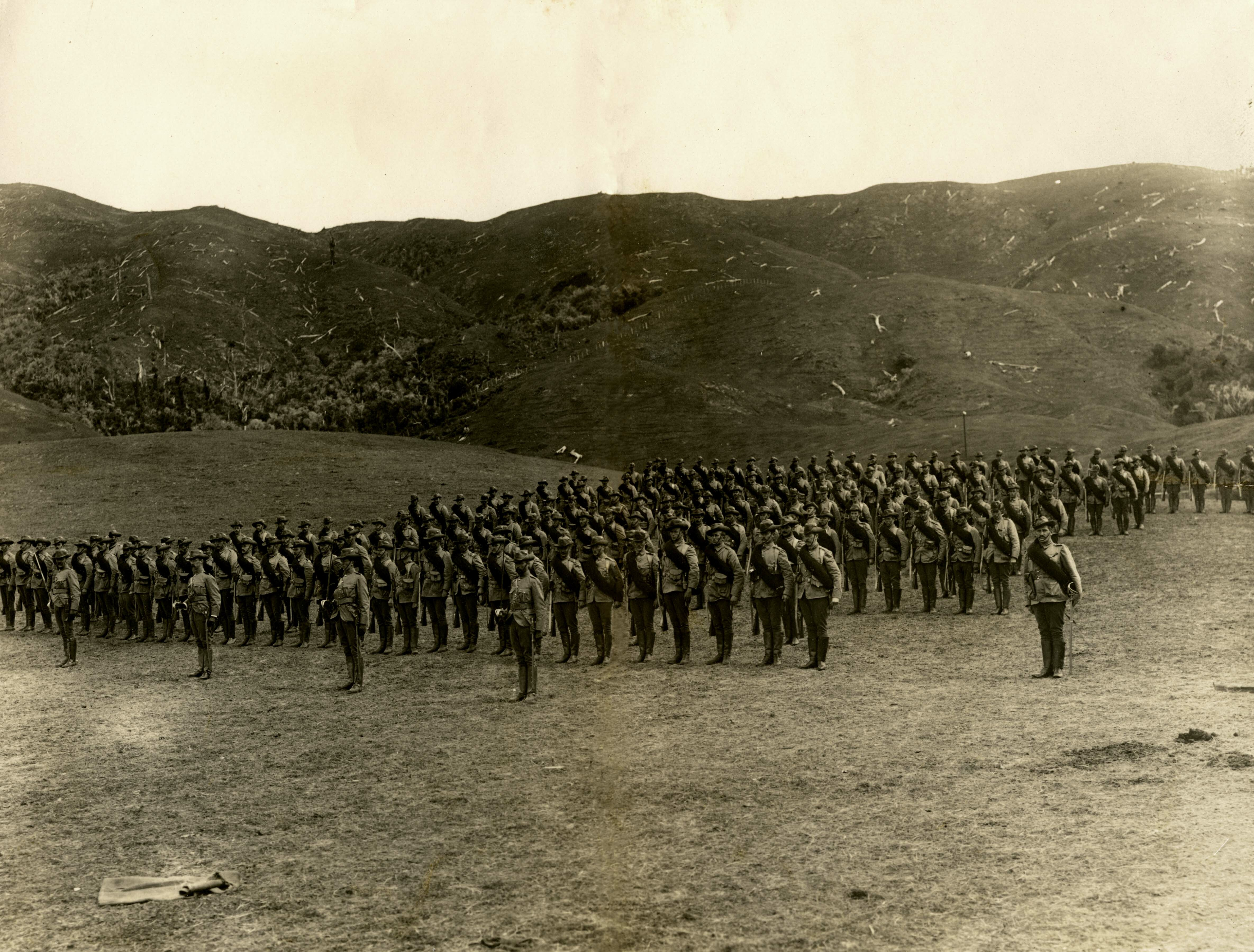 On 28 September 1899, the New Zealand government offered the Imperial Government (London) a contingent of mounted rifles to serve in South Africa in the event of war. The offer was accepted within days, causing the Premier of the day, 'King Dick' Seddon, to proclaim proudly that New Zealand had been the first legislature in the Empire to offer assistance to the Boer War (overlooking the fact that five other colonies had offered forces in July). According to Seddon, the ‘crimson tie’ of Empire bound New Zealand to the ‘Mother-country’, and the majority of the public agreed. When war finally broke out on 11 October 1899, New Zealand was swept up in a wave of patriotic fervour. Hundreds of New Zealand men applied to serve, and by the time war began men from regular and Volunteer Forces were already in training at Karori, Wellington. This 1899 photograph by John James Lewis is from the Patents Office collection, and shows the New Zealand Contingent in marching order at Karori, 10 minutes before leaving to board their troopship. They arrived in South Africa on 23 November, and what began as a grand venture soon became an arduous campaign. Some 6500 men and 8000 horses were eventually sent from New Zealand (exceeded only by Great Britain and Rhodesia), with 69 killed, 190 wounded, and 136 dying from disease. For updates on our On This Day series and news from Archives New Zealand, follow us on Twitter Material supplied by Archives New Zealand